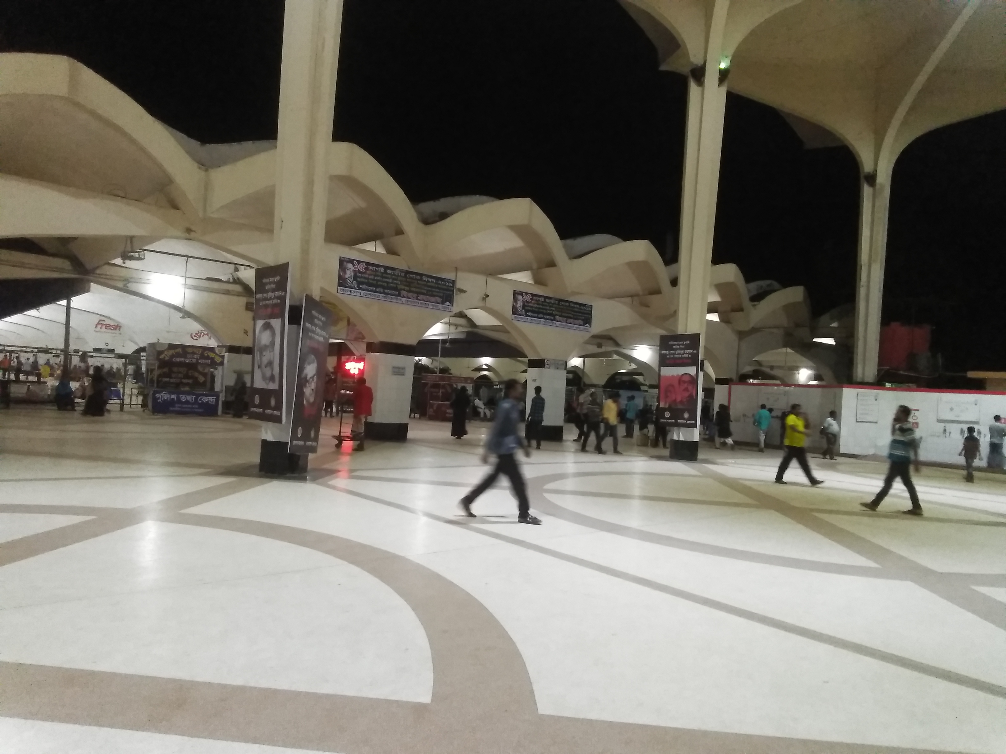 The bisiest and largest Station in Bangladesh